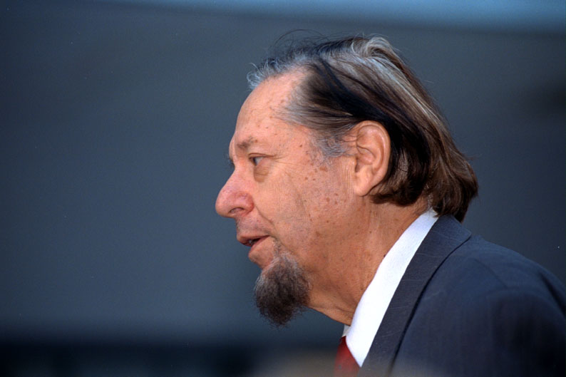 More about the event